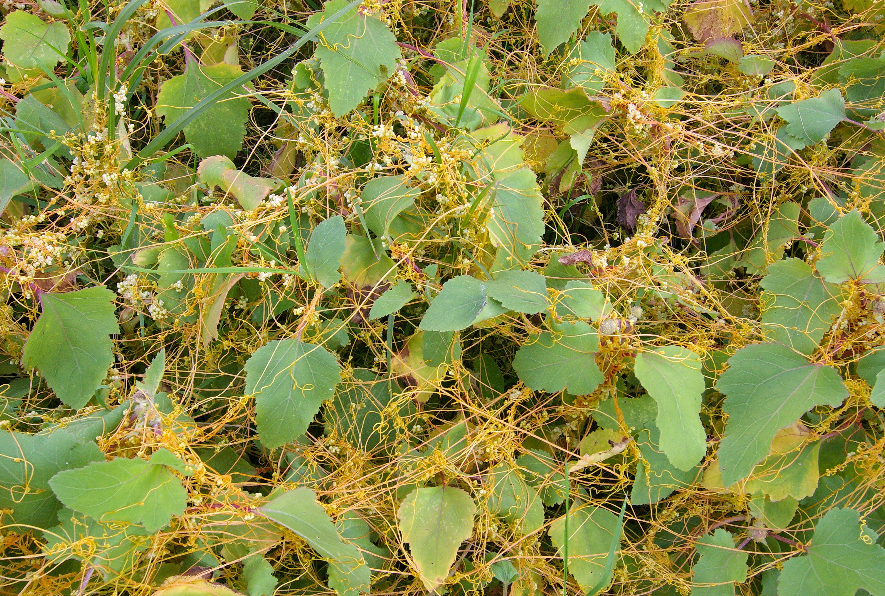 Plants of Cuscuta campestris growing on Xanthium albinum (big leaves) at the banks of the Elbe River.